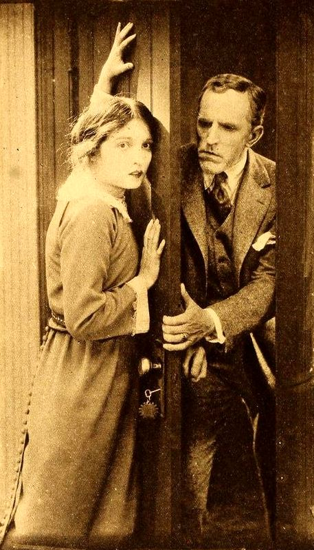 Still from the American film Slaves of Pride (1920) with Alice Joyce and Gustav von Seyffertitz, from an adaption of the film on page 60 of the March Motion Picture Magazine. The still caption: "Patricia had done what she had done because her pride had, at least, been violated to the point of outrage."